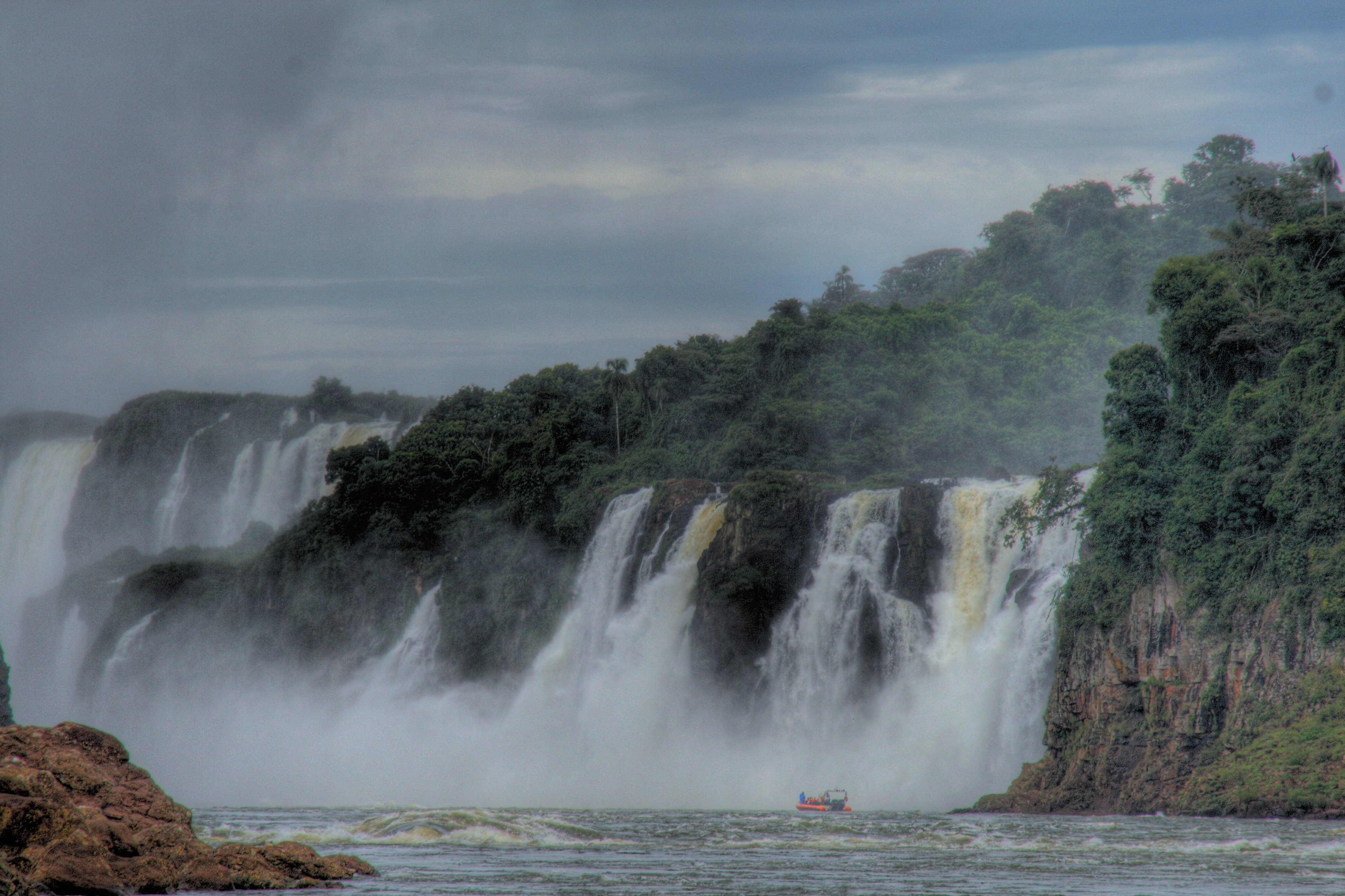 Iguazu Falls Cataratas del Iguazu, Misiones, Argentina